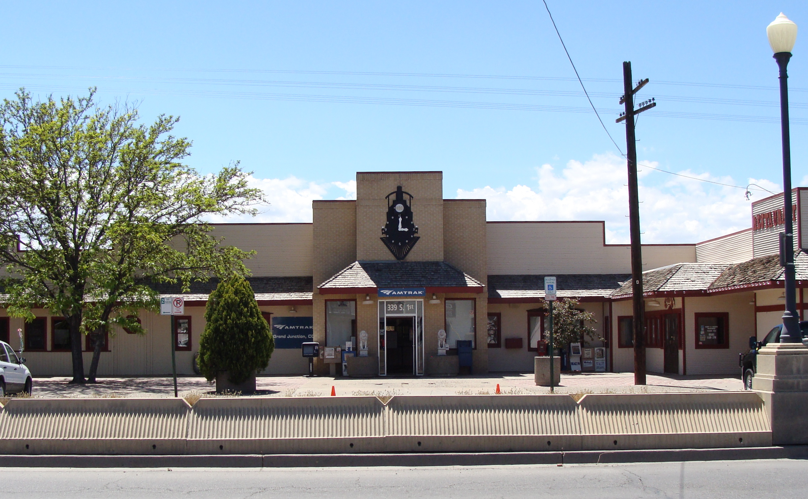 The current station building in Grand Junction, Colorado. Amtrak began using it in 1992.